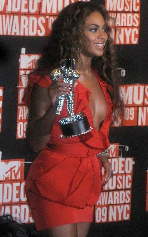 Beyoncé Knowles at the 2009 MTV Video Music.